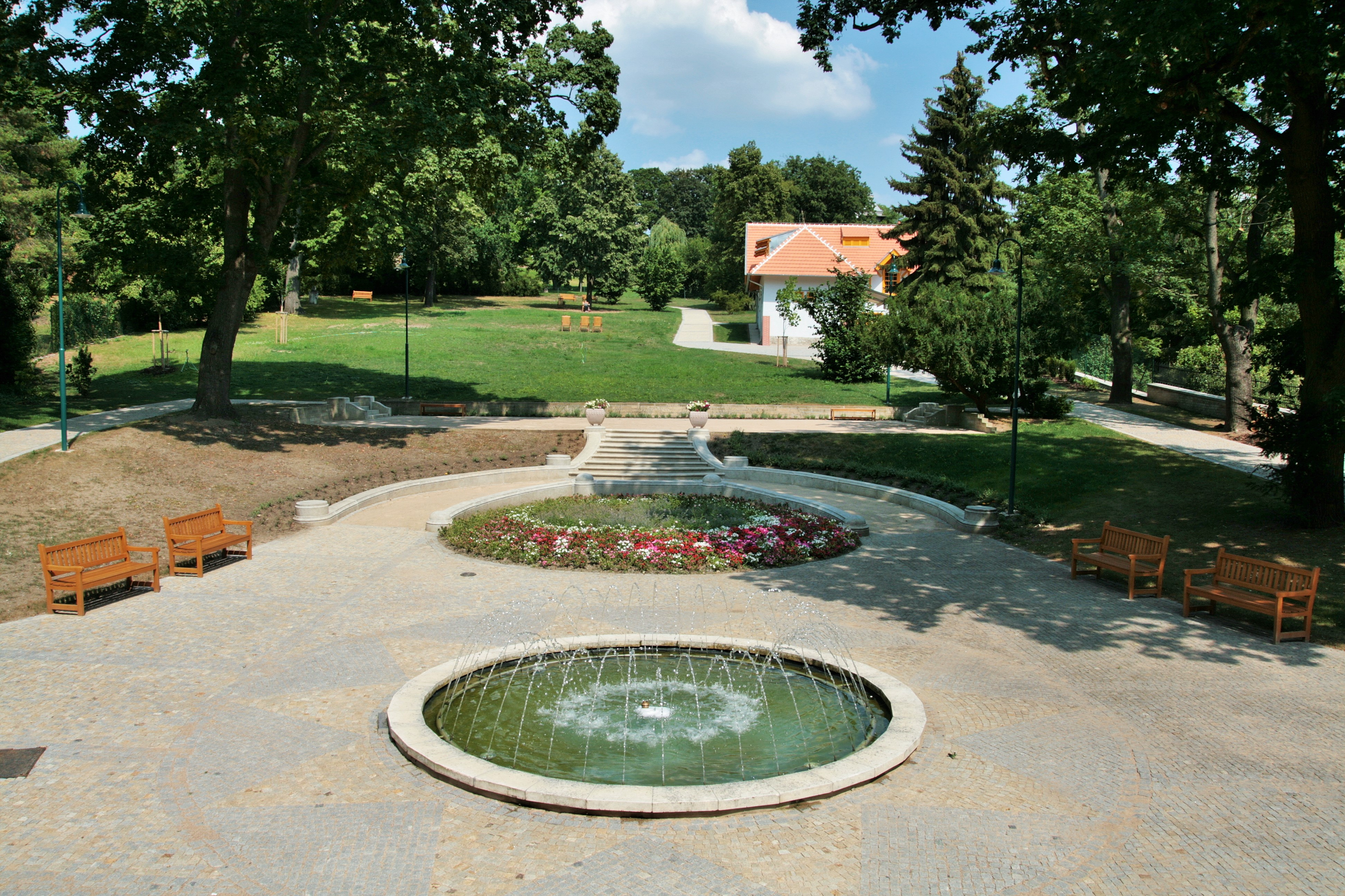 Villa Löw-Beer, Drobného street no. 22, Brno, Czech Republic.